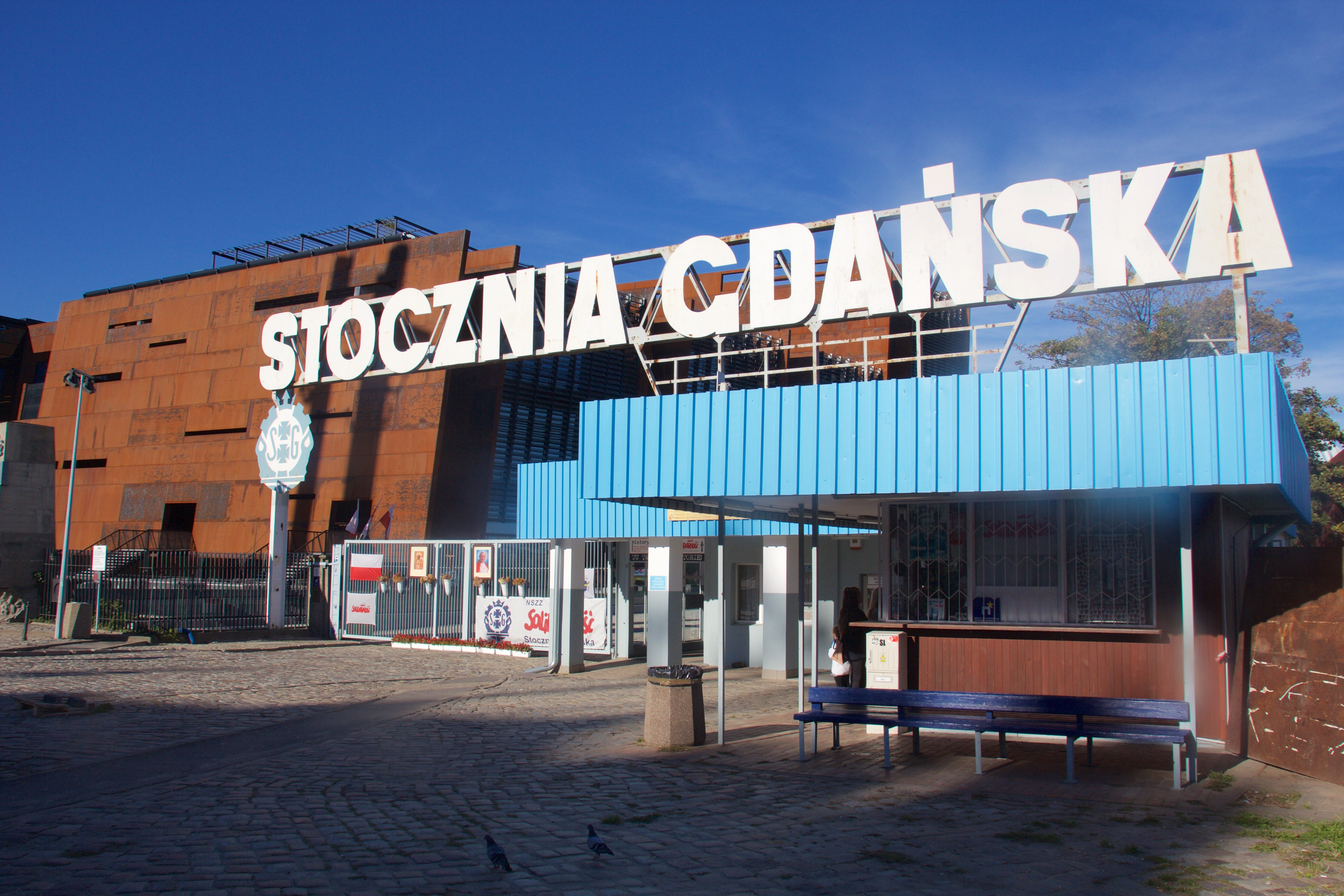 European Solidarity Centre, Gdańsk, Poland.